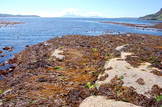 Rocks south of Boreraig There is very little dry land in this square, even at low tide. This seaweed-covered rock is most of it. Rum is visible in the far distance.